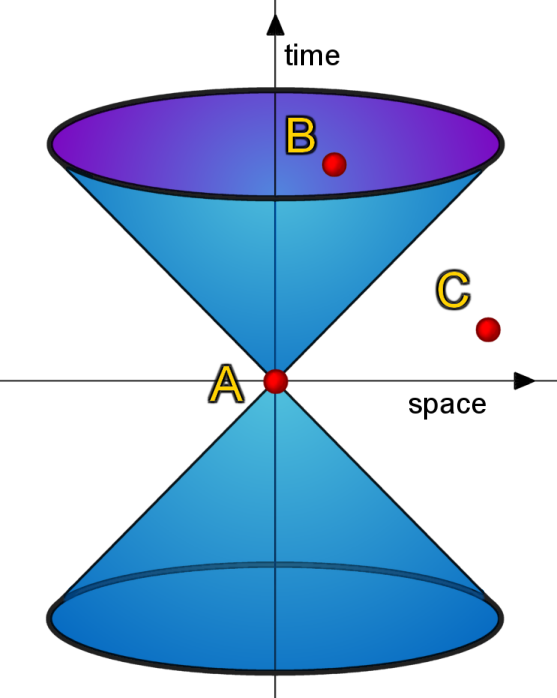 The interval AB in the diagram to the right is 'time-like'. I.e. there is a frame of reference in which event A and event B occur at the same location in space, separated only by occurring at different times. If A precedes B in that frame, then A precedes B in all frames. It is hypothetically possible for matter (or information) to travel from A to B, so there can be a causal relationship (with A the cause and B the effect). The interval AC in the diagram is 'space-like'. I.e. there is a frame of reference in which event A and event C occur simultaneously, separated only in space. However there are also frames in which A precedes C (as shown) and frames in which C precedes A. Barring some way of traveling faster than light, it is not possible for any matter (or information) to travel from A to C or from C to A. Thus there is no causal connection between A and C.